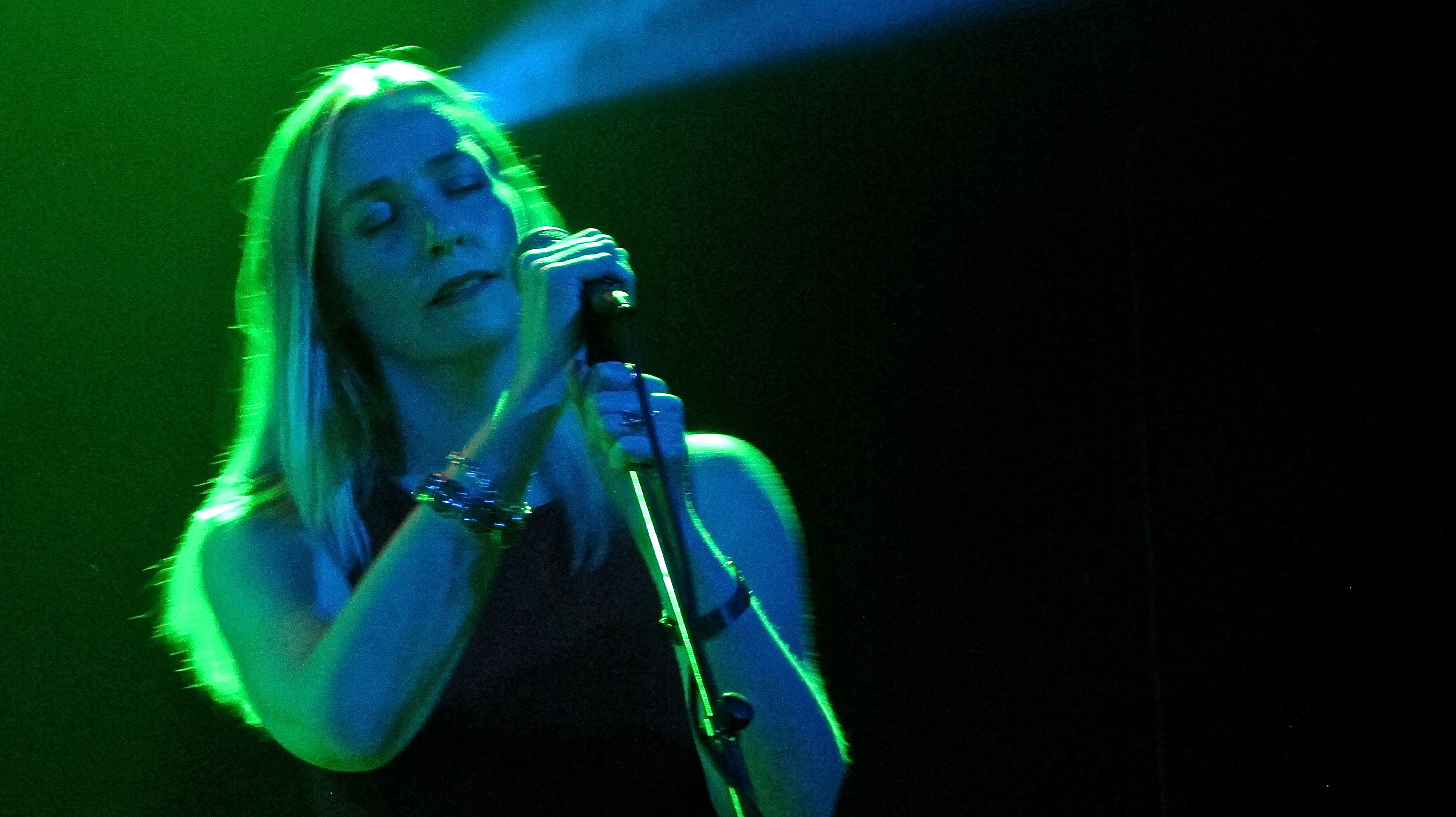 English Singer